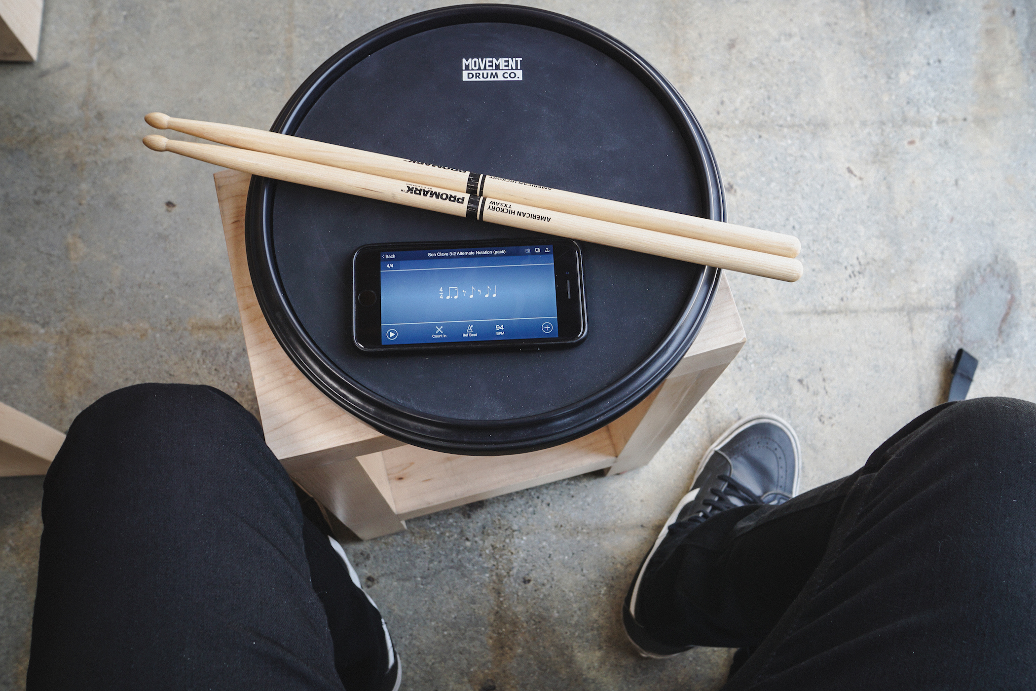 Using a metronome with a practice pad is a common and effective way to practice. Movement Drum Co. 4-in-1 Pad and SYNKD.